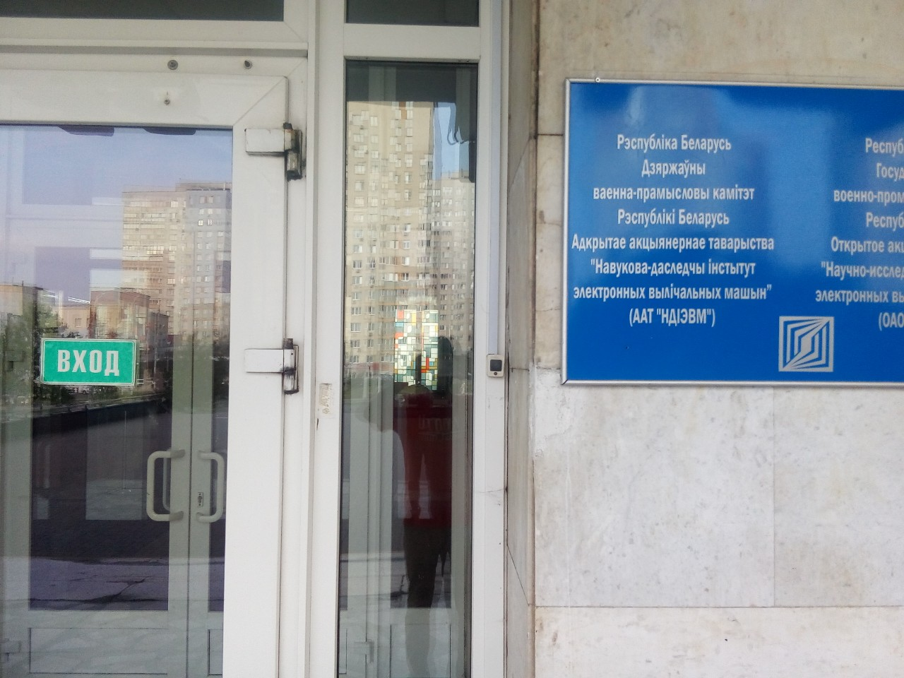 Plaque of the headquaters of Computer Research Institute (155 Bahdanoviča Street, Minsk, Belarus; 28th of July, 2019)